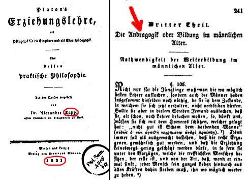 The oldest document using the term "Andragogik": Kapp, Alexander (1833): Platon's Erziehungslehre, als Pädagogik für die Einzelnen und als Staatspädagogik. Leipzig.